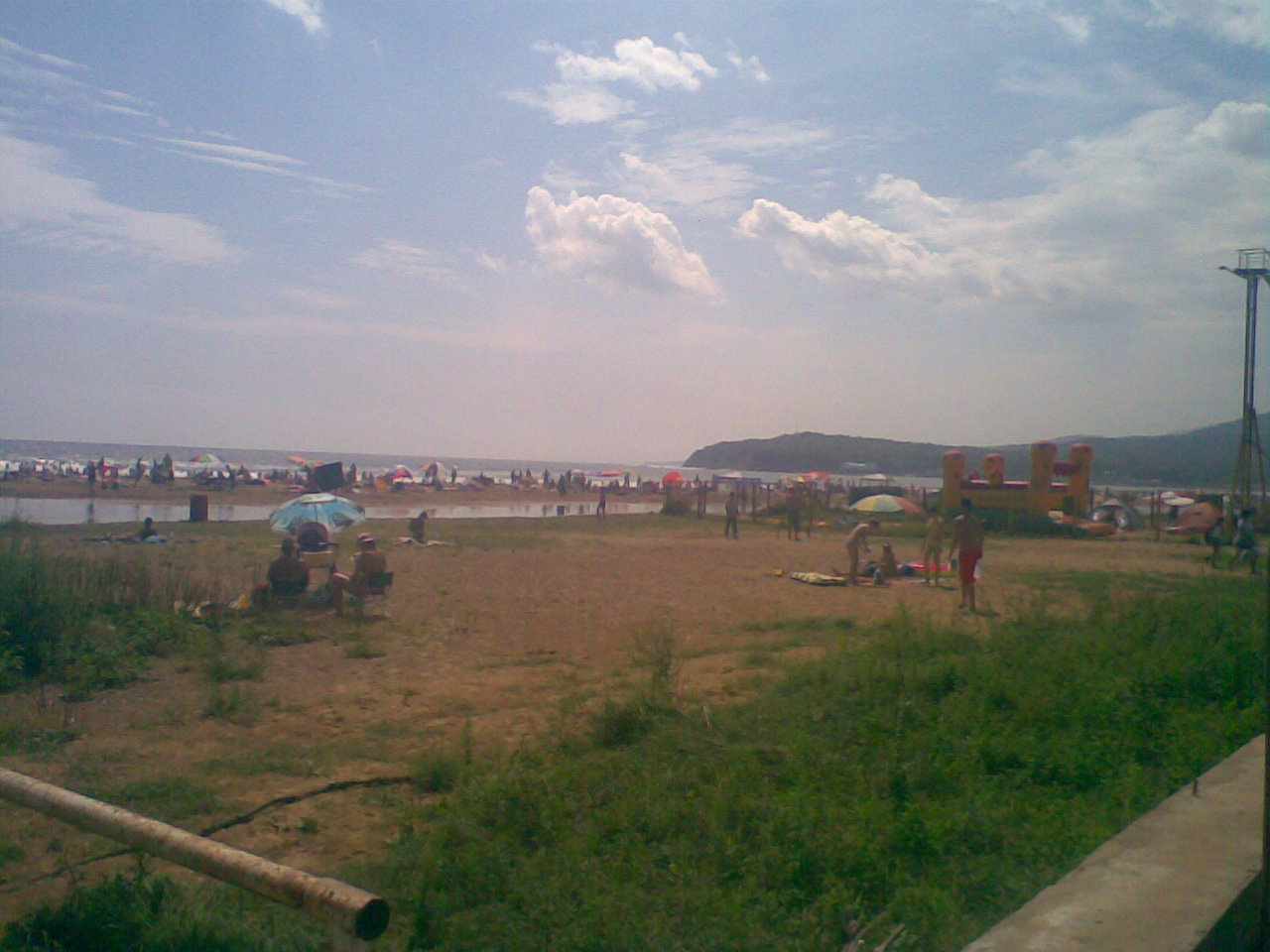 Azure Cove (Shamora) at the height of beach season